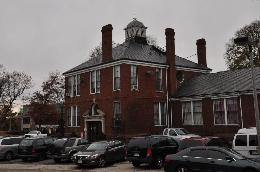 The Sewall building of the Dimock Center fka the New England Hospital for Women and Children.